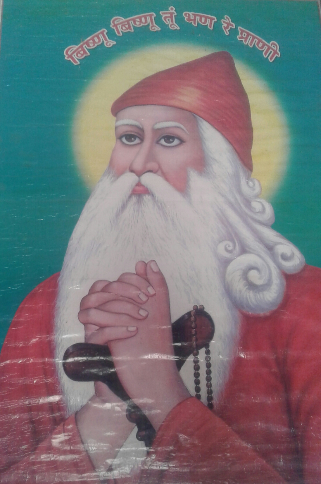 Guru Jambheshwar the Saint and Environmentalist